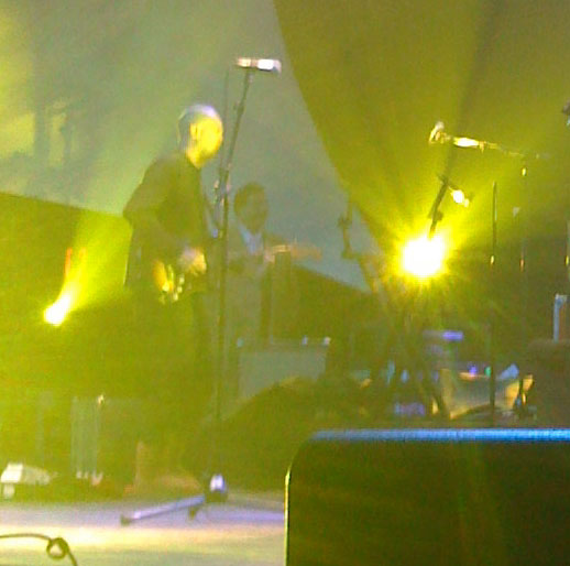 Chuck Hammer, guitarist, NYC 2010, Terminal 5